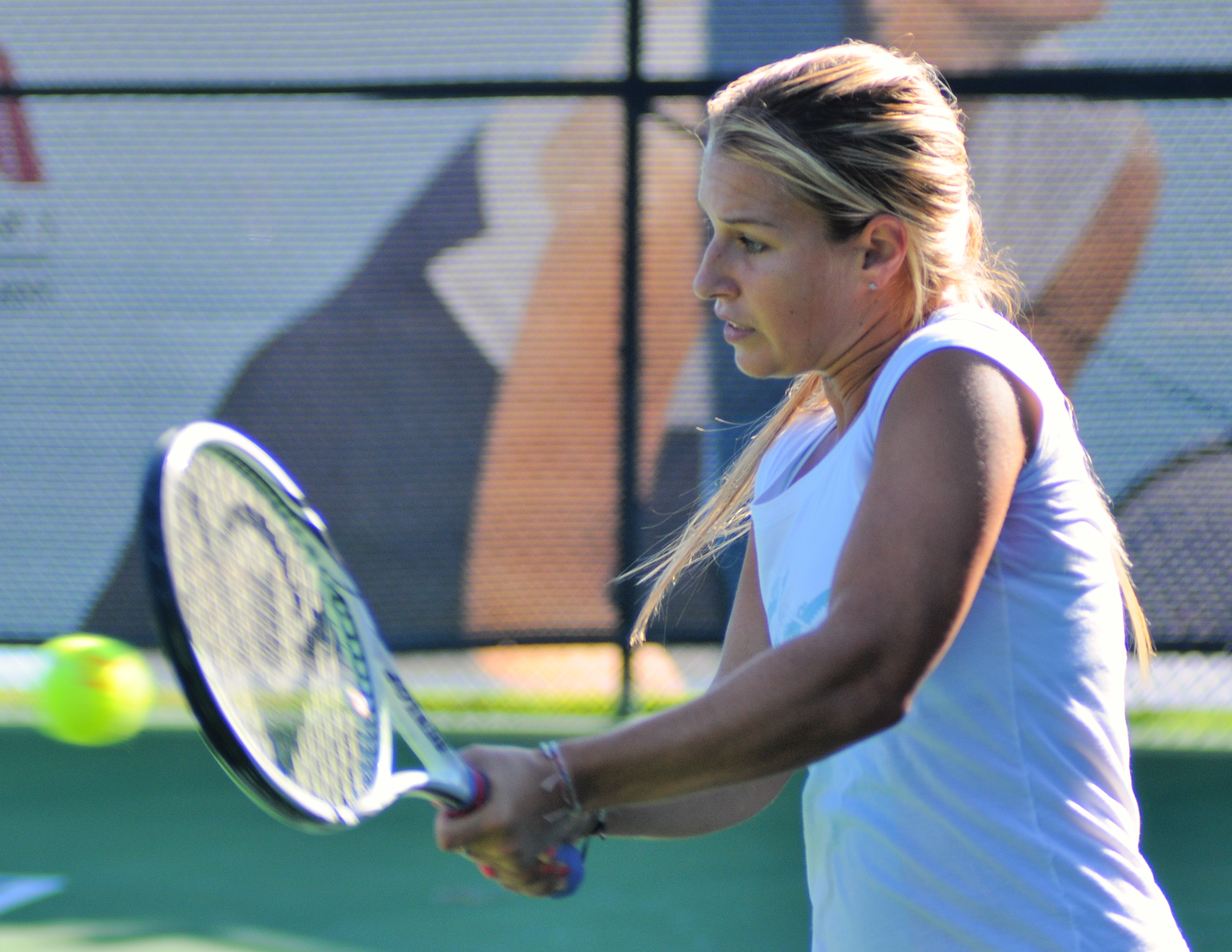 Dominika Cibulková at the 2011 Mercury Insurance Tennis Open